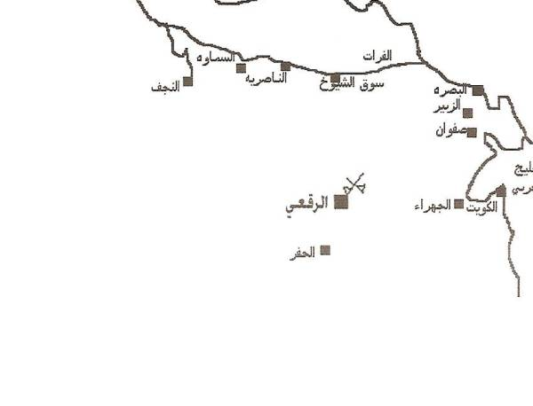 place of battle,alriqei in kuwait in 1928.